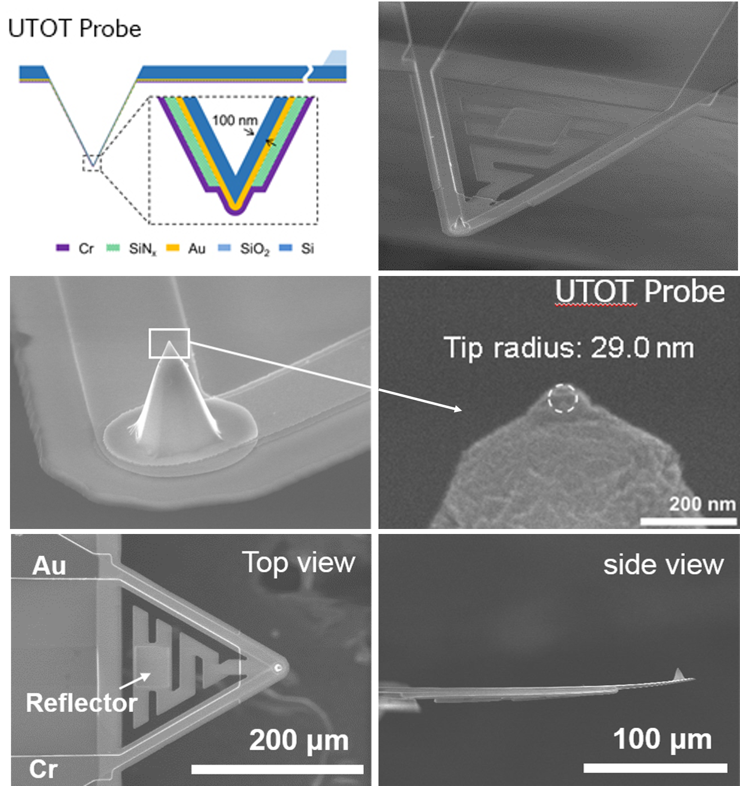 Schematic and SEM image of commercial SThM probe